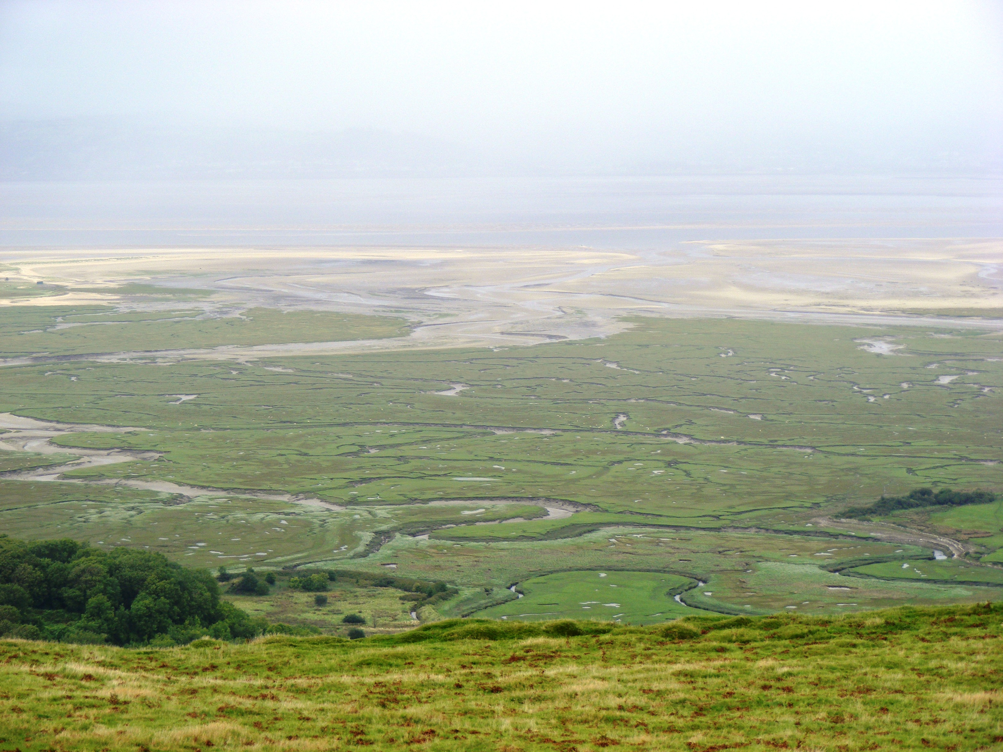 Mudflats and nature reserve of the River Lougher on the northern coast of the Gower peninsular